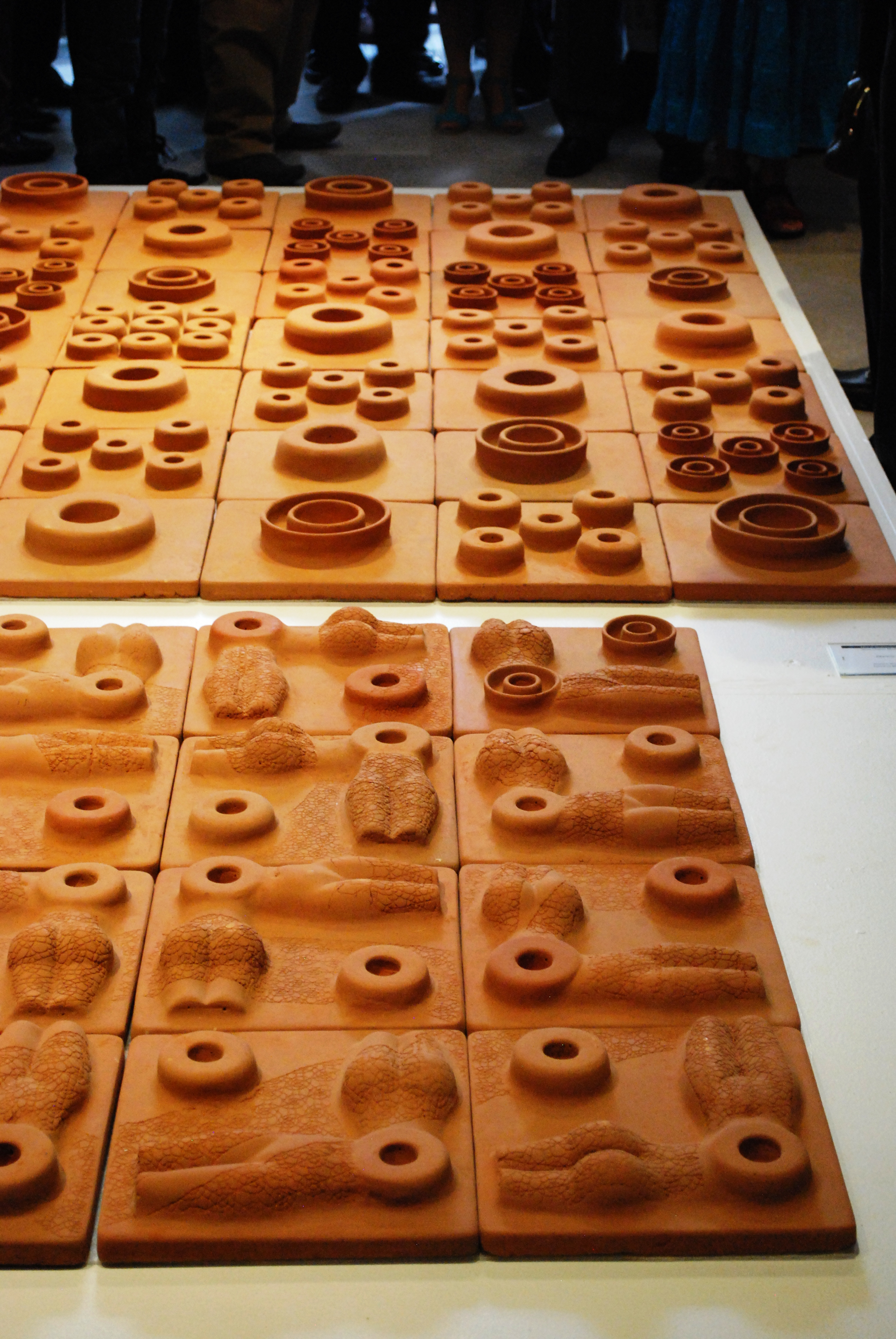 tiles created for wall murals. Both created by Jesus Chavez Medina of Huasca. On display as part of a temporary exhibit of Hidalgo crafts at the Museo de Arte Popular, Mexico City